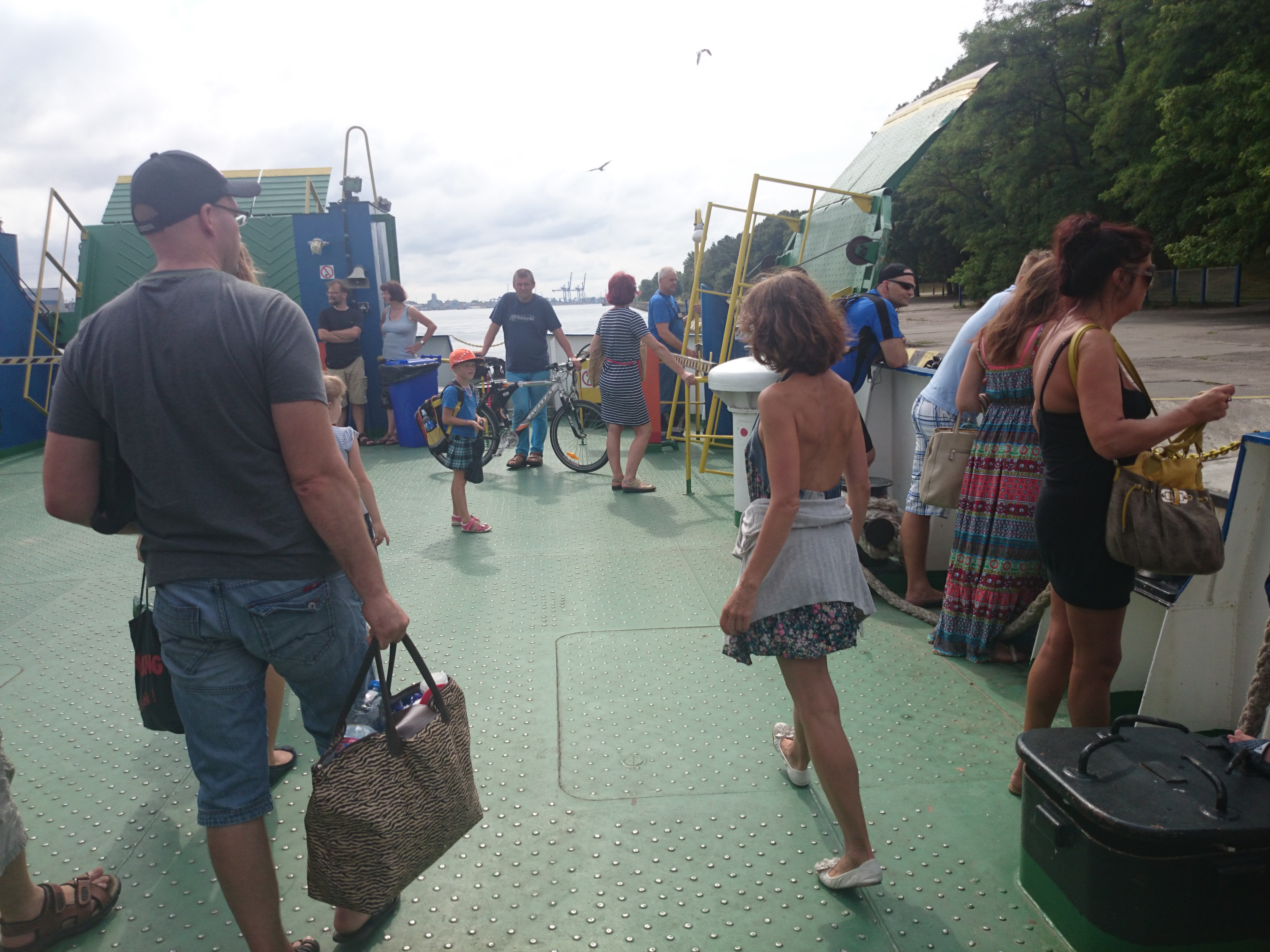 Senoji perkėla Klaipėdoje